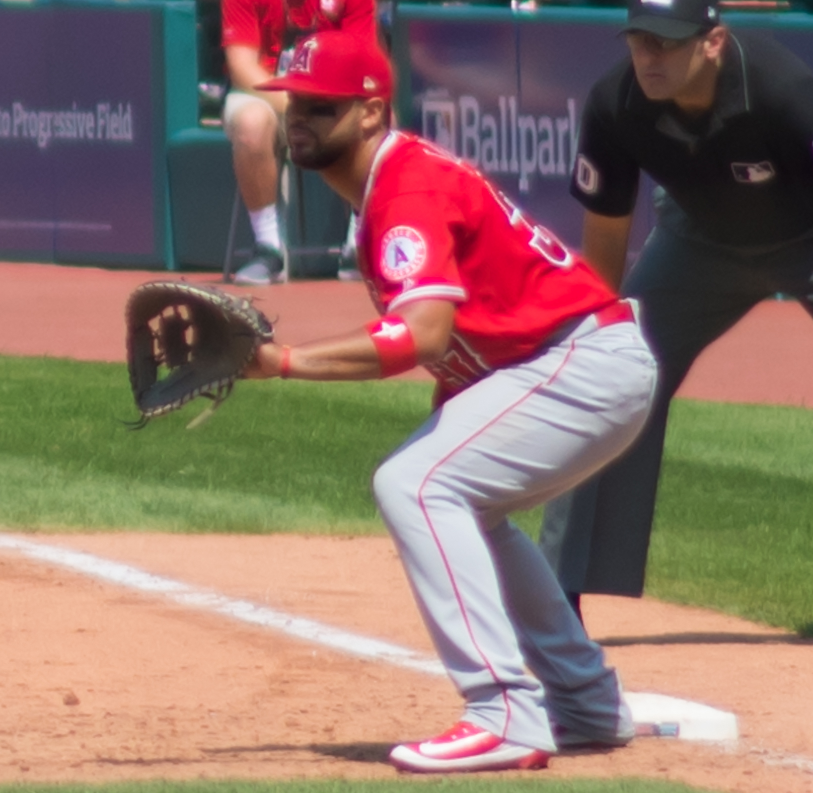 Francisco Arcia of the Los Angeles Angels attempts to hold Francisco Lindor of the Cleveland Indians on at first base during a 2018 game at Progressive Field in Cleveland